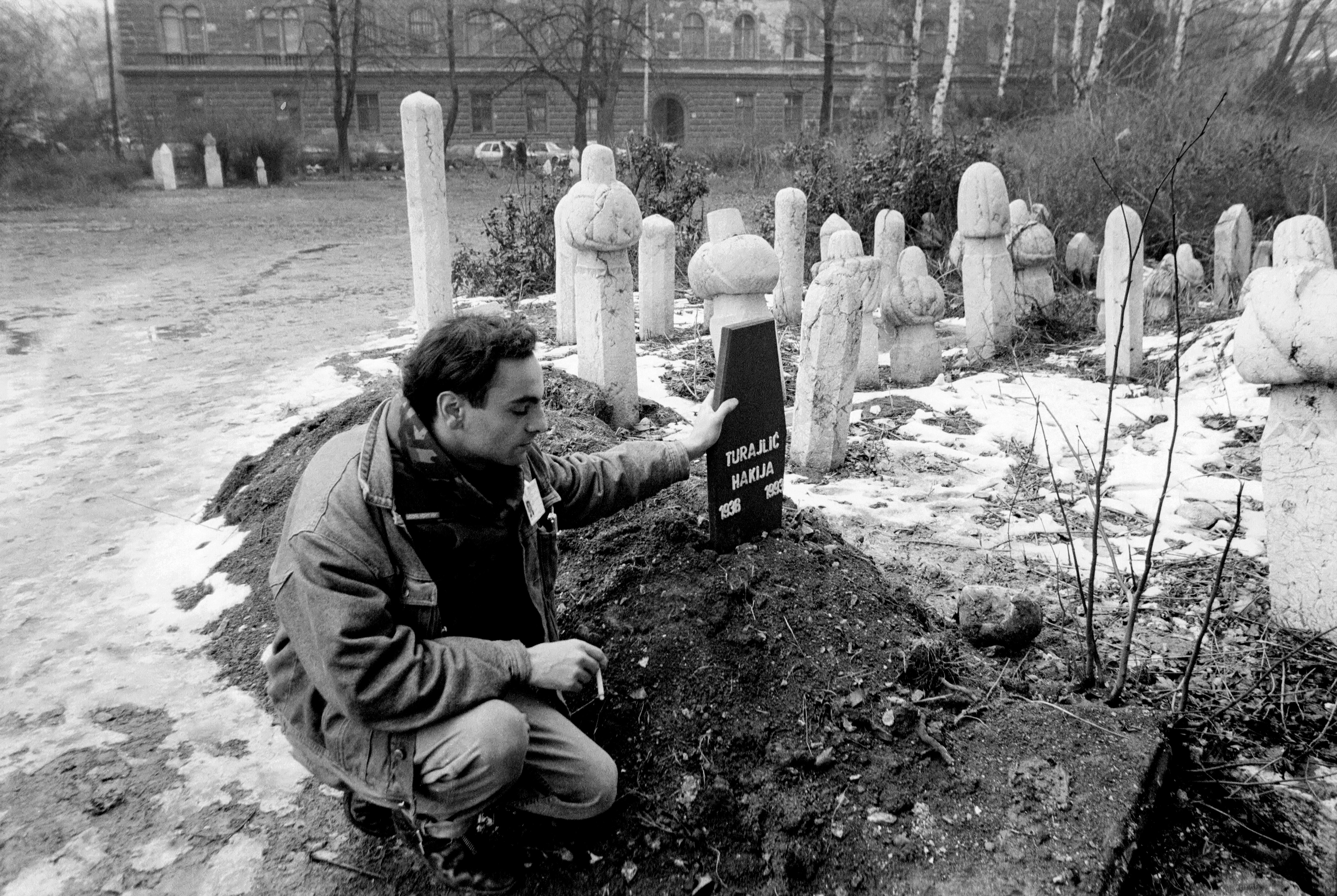 Sarajevo, winter of 1992-1993. Dutch journalist Robert Dulmers beside Bosnian deputy prime minister Hakija Turajlić's grave at the Ali Pasha mosque in the centre of Sarajevo. On January 8 1993 Turajlić was in a United Nations Protection Force (UNPROFOR) armoured personnel carrier crewed by a French unit under the command of General Morillon when it was stopped by Serb gunmen on Sniper Alley. After a 90-minute standoff, a French UNPROFOR officer opened the door, allowing one of the gunmen to murder Turajlić, who was hit by seven or eight rounds from the assailant's AK47. (Peace talks in Geneva were cancelled as a consequence.) A Bosnian Serb, Goran Vasic, later convicted of war crimes against prisoners in the Medjarici concentration camp, was acquitted for lack of evidence. Christian Maréchal photo